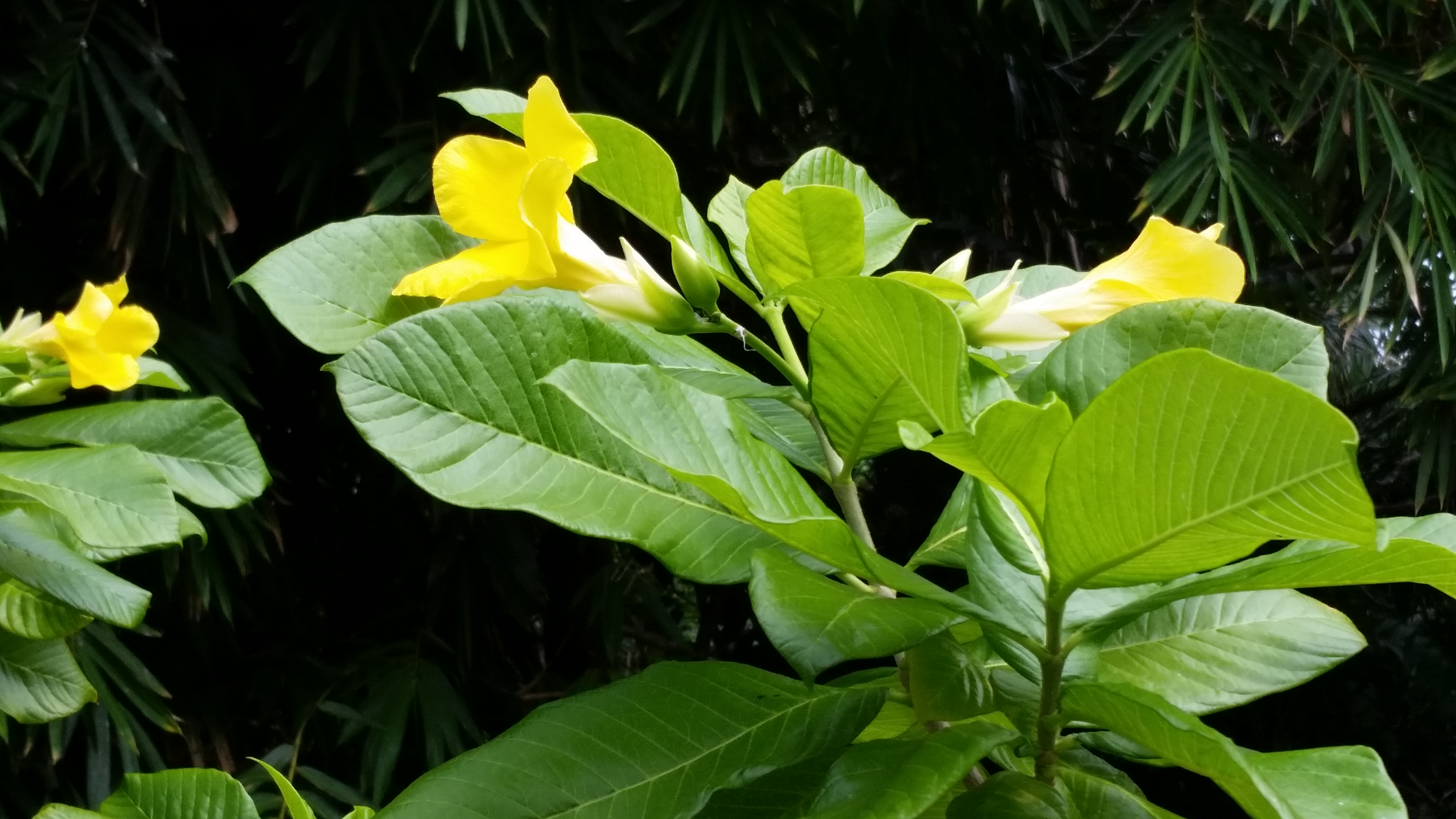 Stemmadenia, used to be called (?) Tabernaemontana, maybe milky-way tree. This article says the one at Foster, with yellow flowers, is Stemmadenia glabra